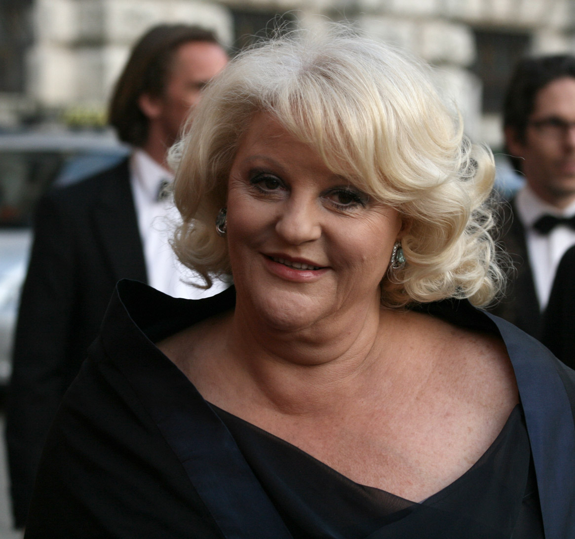 Marika Lichter at the Romy TV awards (Hofburg Imperial Palace in Vienna)